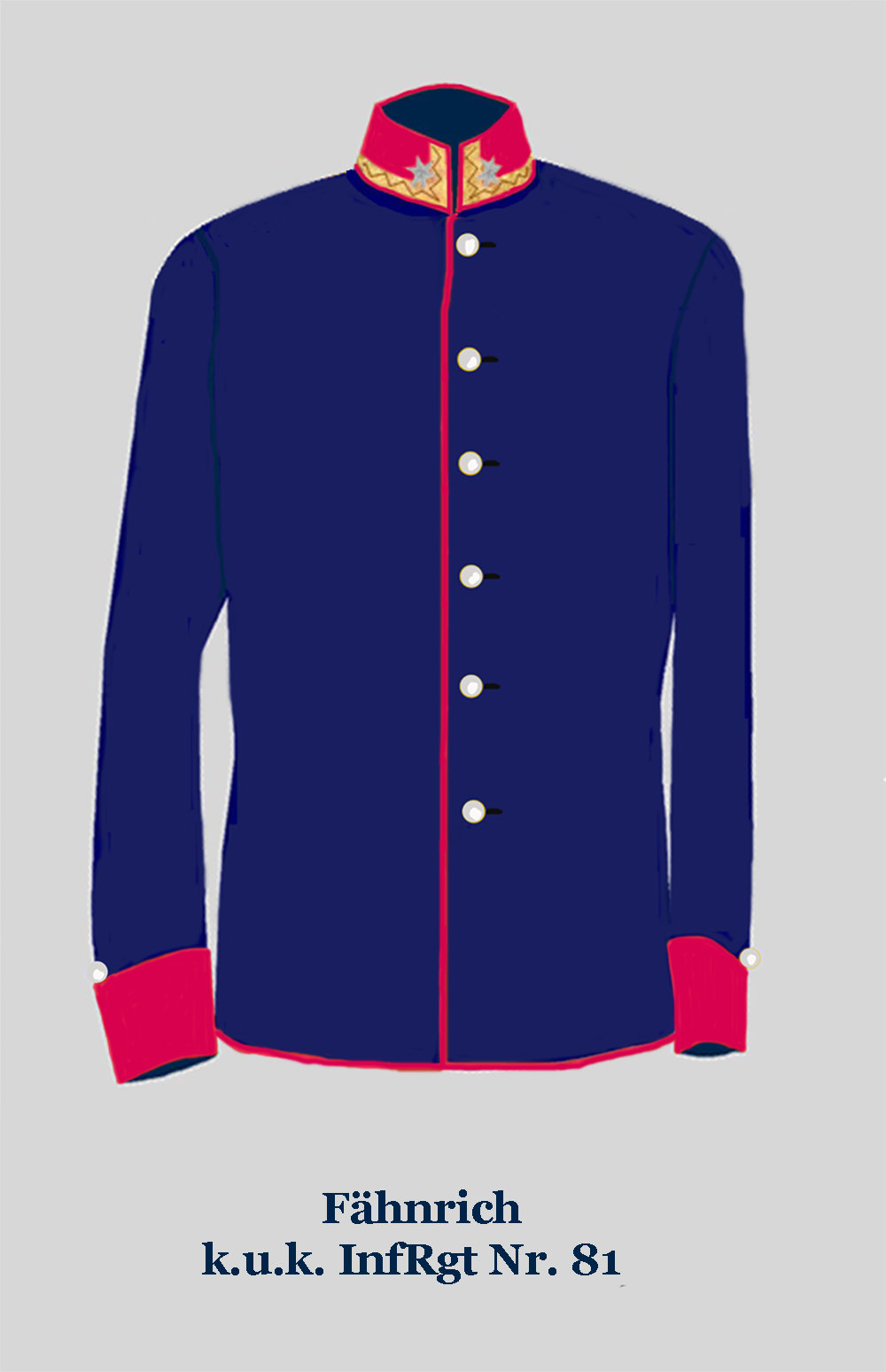 Ensign of the k.u.k. german 81st Infantry Regiment (Collar crimson, buttons white)